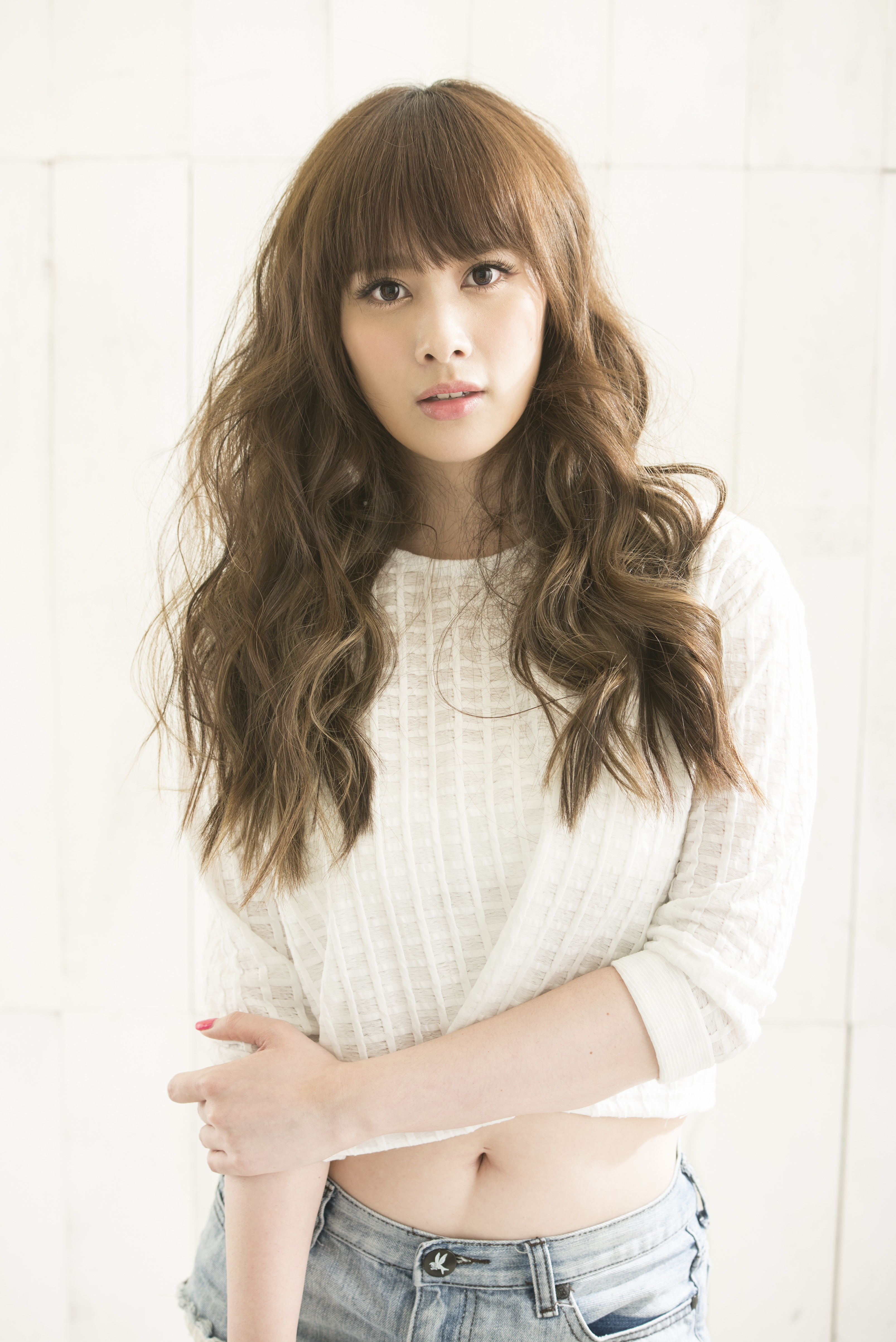 Emily Hung